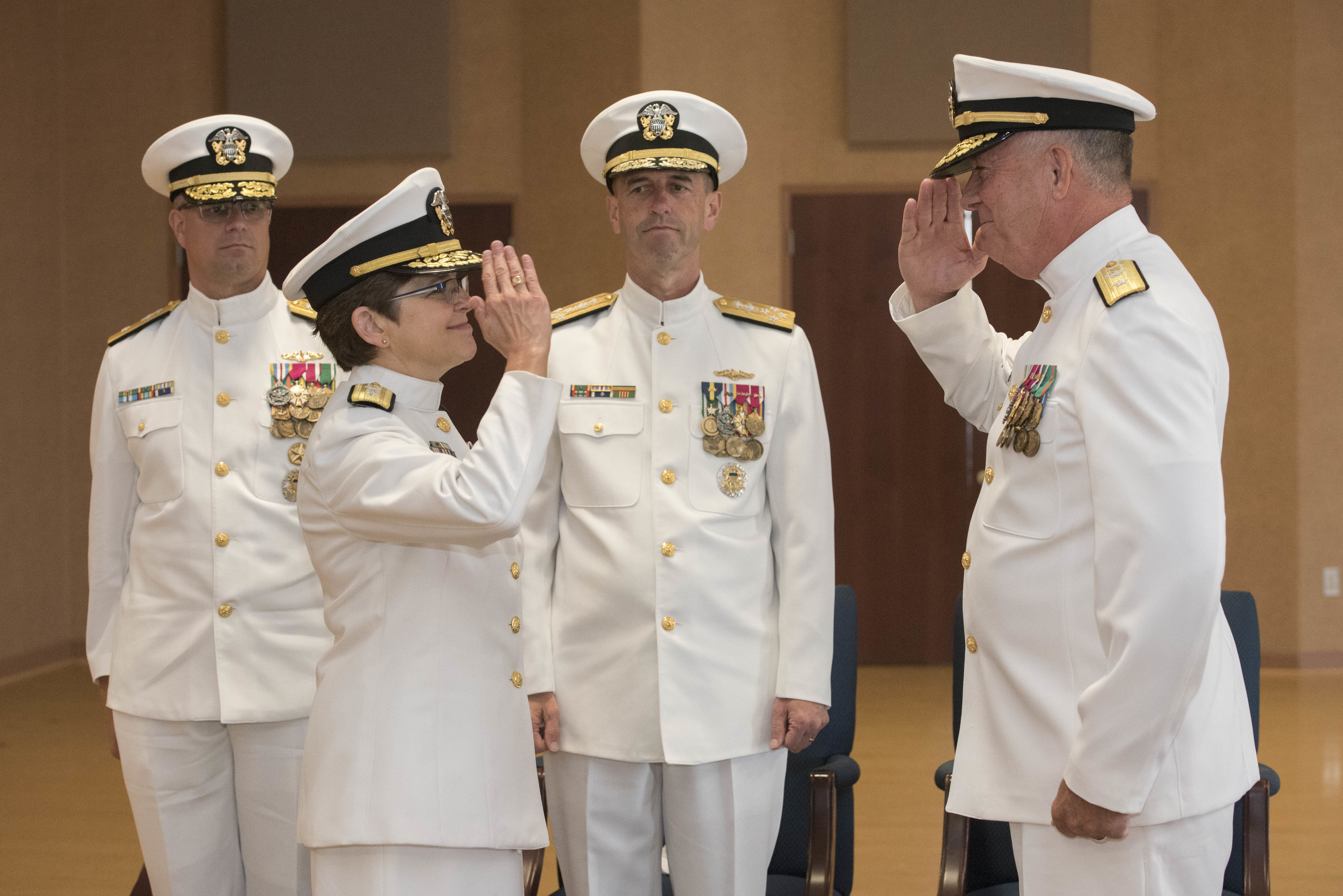 180723-N-ES994-046 WASHINGTON (July. 23, 2018) Rear Adm. Margaret G. Kibben, U.S. Navy chief of chaplains, is relieved by Rear Adm. Brent W. Scott at the Washington Navy Yard in a change of office and retirement ceremony. Chief of Naval Operations (CNO) Adm. John Richardson was the guest speaker and presiding officer for the event. (U.S. Navy photo by Mass Communication Specialist Chief Elliott Fabrizio/Released)